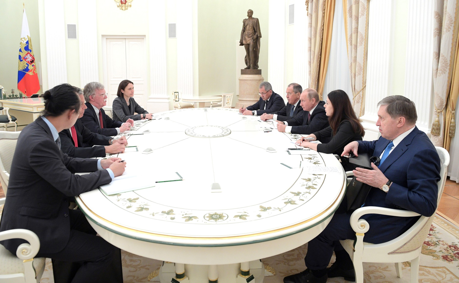 Russian President Vladimir Putin meeting with John Bolton, National Security Adviser to the President of the United States of America.